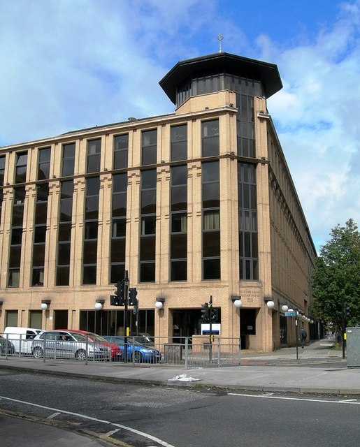 Dalian House Located at the junction of St Vincent Street and North Street, this building was the former home of Strathclyde Regional Council's Education Department.